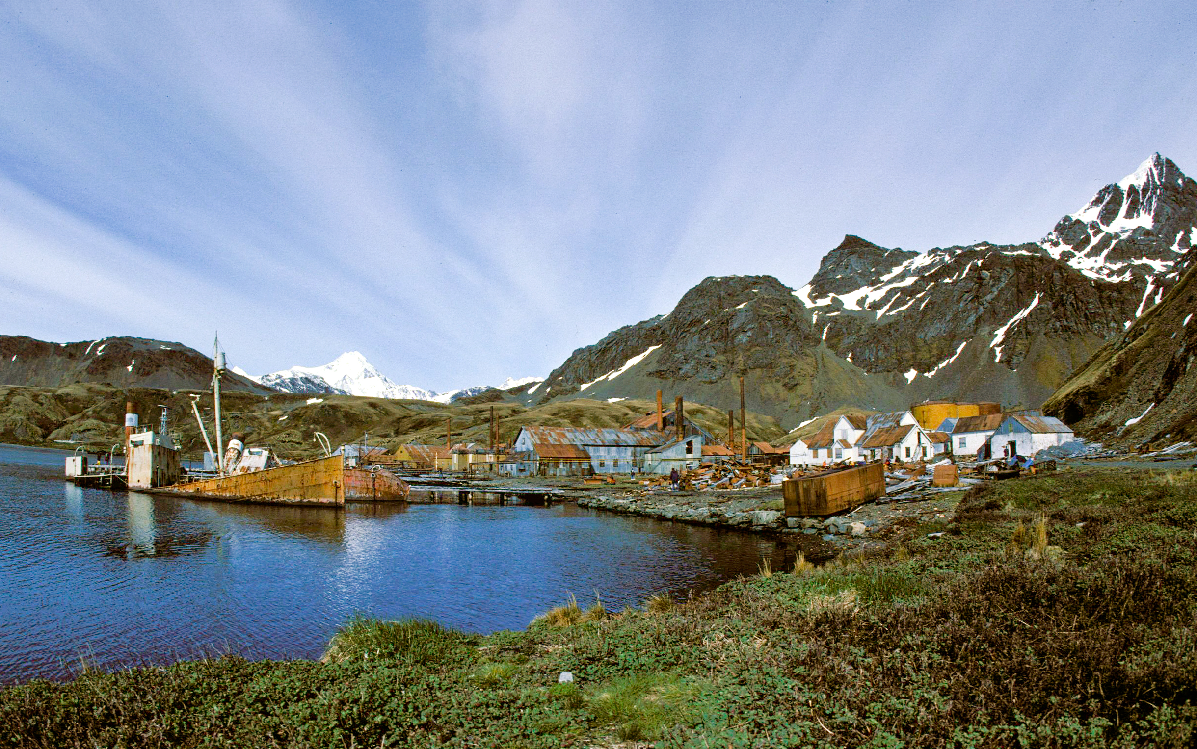 Grytviken at South Georgia, whaling station